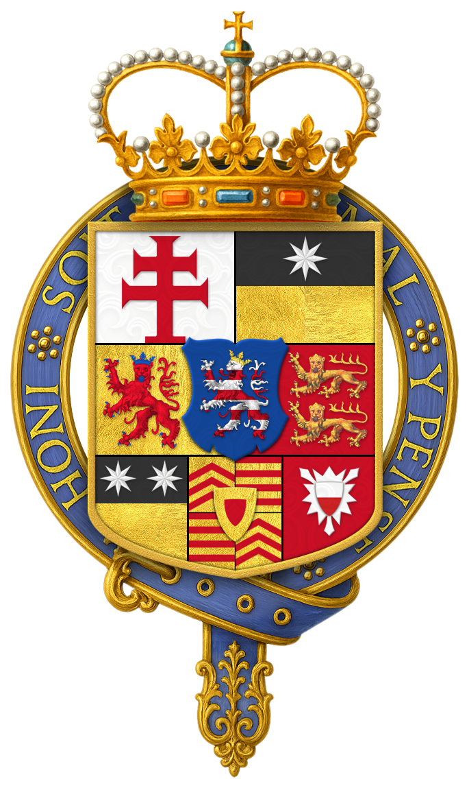 Gartered coat of arms of Frederick II, Landgrave of Hesse-Kassel, KG